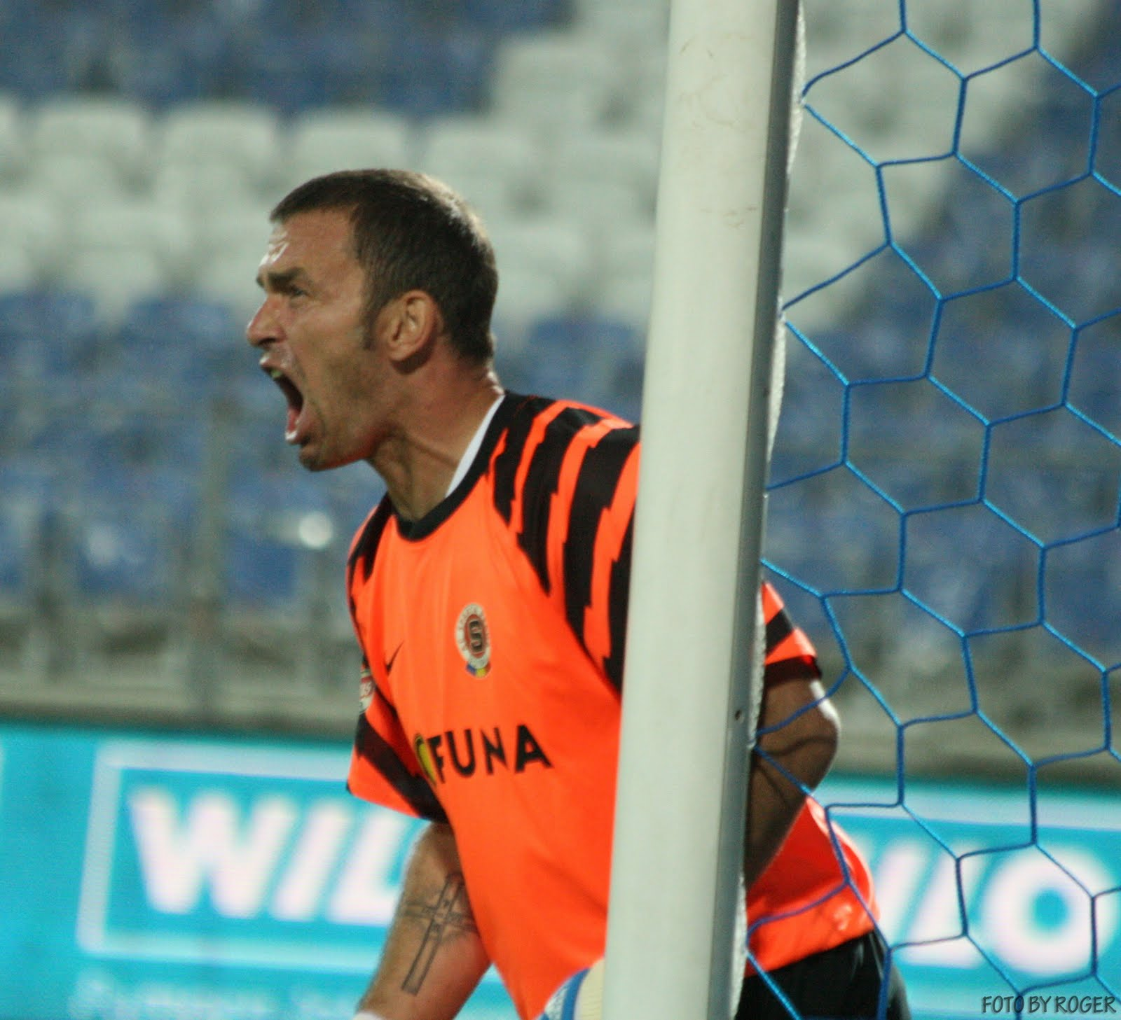 Czech football player Jaromír Blažek